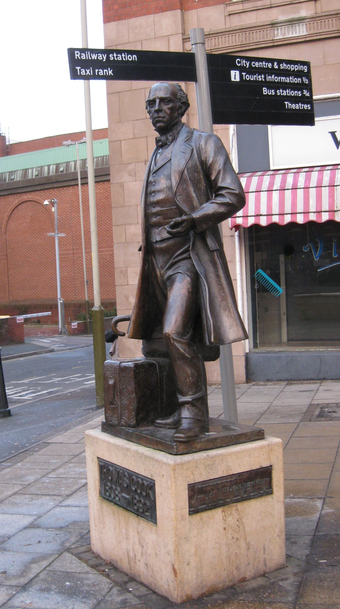 Statue of Thomas Cook by Walter Butler RA on London Road, Leicester, by the railway station, unveiled on the 14th of January 1994